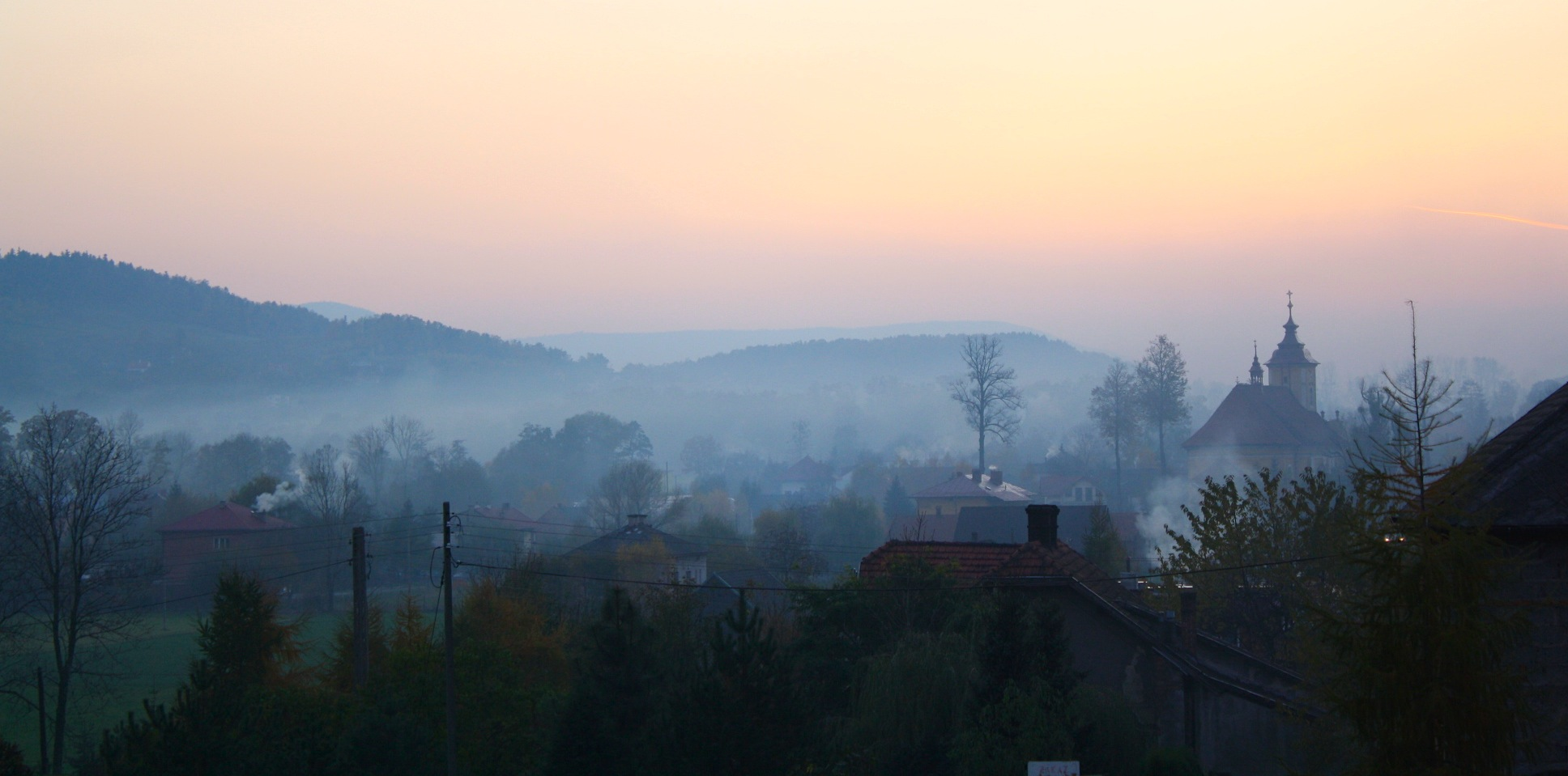 A general view of Inwałd (Poland)